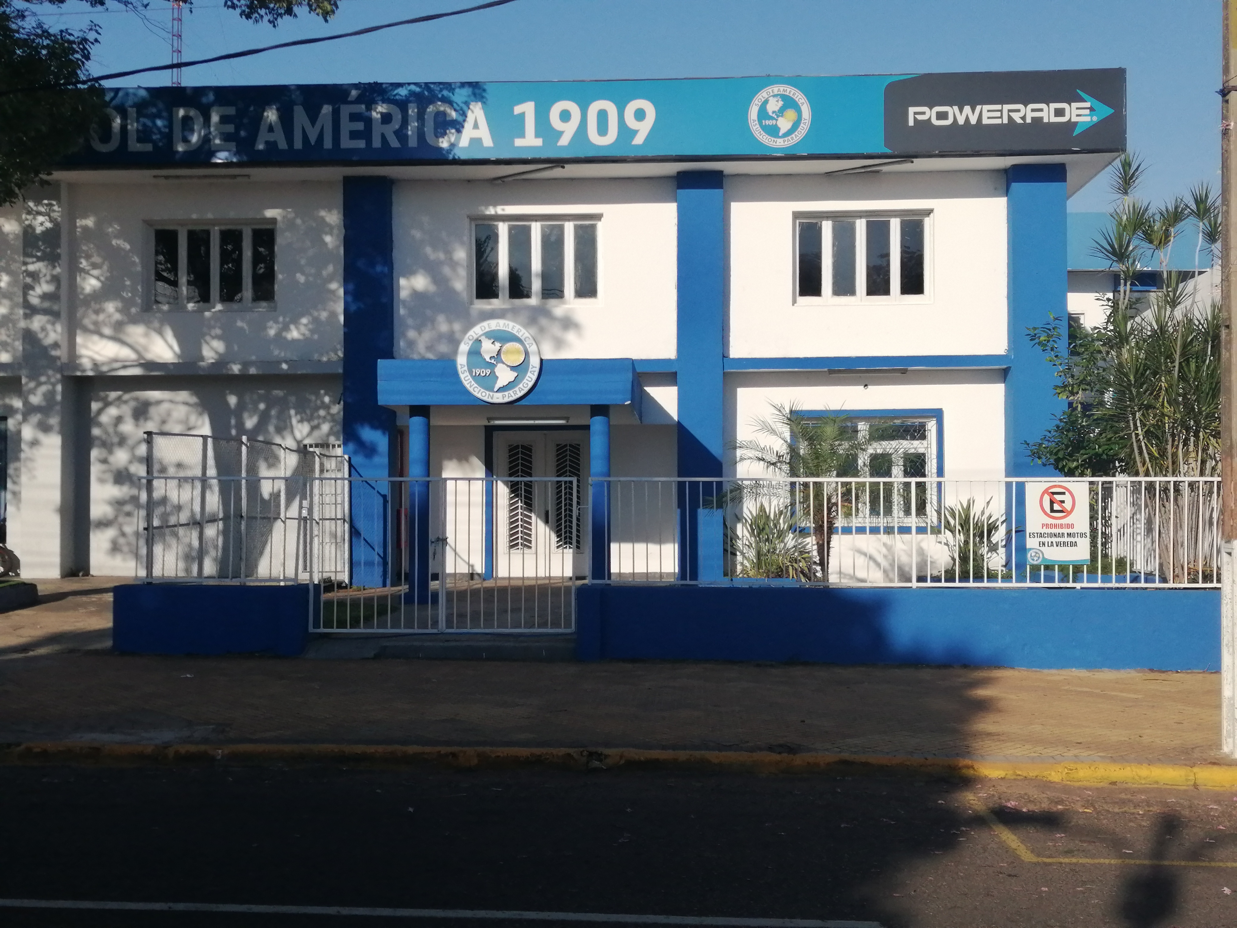 Exterior view of the entry of the headquarters of the Club Sol de America from the 5ta Protectadas Street in 2020